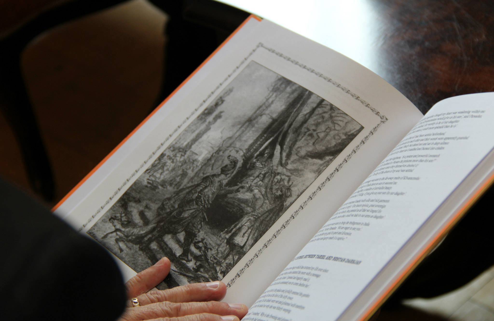 January 15, 2014, U.S. Ambassador Richard Norland visited the National Parliamentary Library to donate more than 100 Pulitzer Prize Winning books by American authors to the library’s permanent collection. The Ambassador thanked the director, Giorgi Kekelidze, and the head of public relations, Giorgi Sabanadze, for their tremendous support of Embassy events such as the annual Educational Fair and Millennium Challenge Corporation’s Second Compact reception.